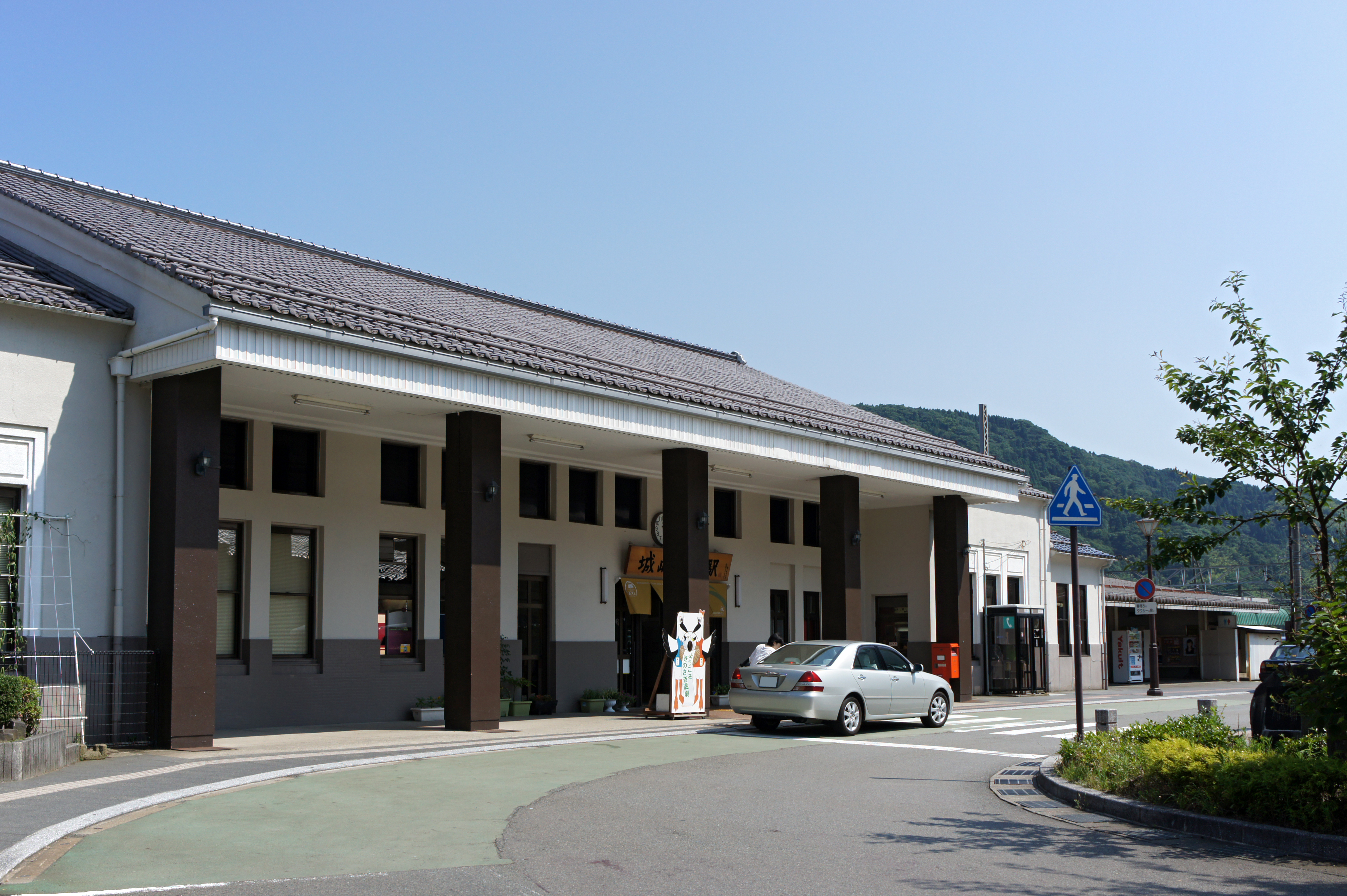 Kinosaki Onsen Station in Toyooka, Hyogo prefecture, Japan.